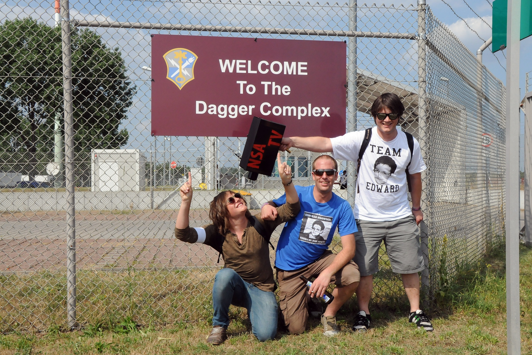 A protest against massive surveillance by the United States government is being staged outside the Dagger Complex in Darmstadt, Germany. The former was said to be a center of NSA espionage.